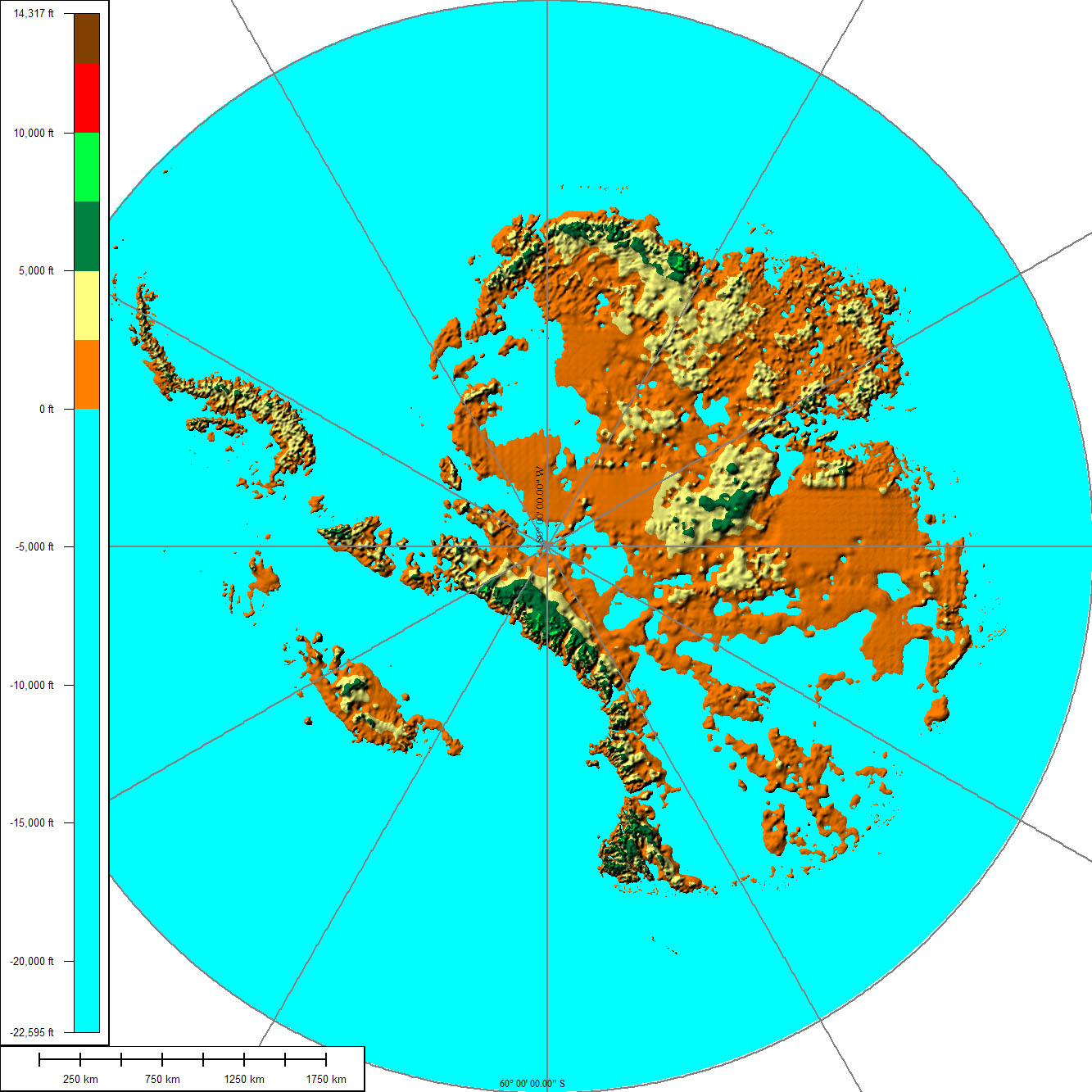 The above map shows the subglacial topography of Antarctica. As indicated by the scale on left-hand side, blue represents portions of Antarctica lying below sea level. The other colors indicate Antarctic bedrock lying above sea level. Each color represents an interval of 2,500 feet in elevation. Map is not corrected for sea level rise or isostatic rebound, which would occur if the Antarctic ice sheet completely melted to expose the bedrock surface.